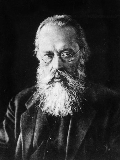 Photo of Vladimir Steklov from the official web site of the Russian Academy of Sciences: The image is made and published in the Soviet Union before 1926.